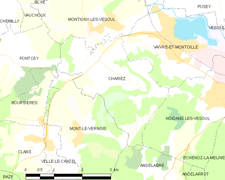 Map of French municipality